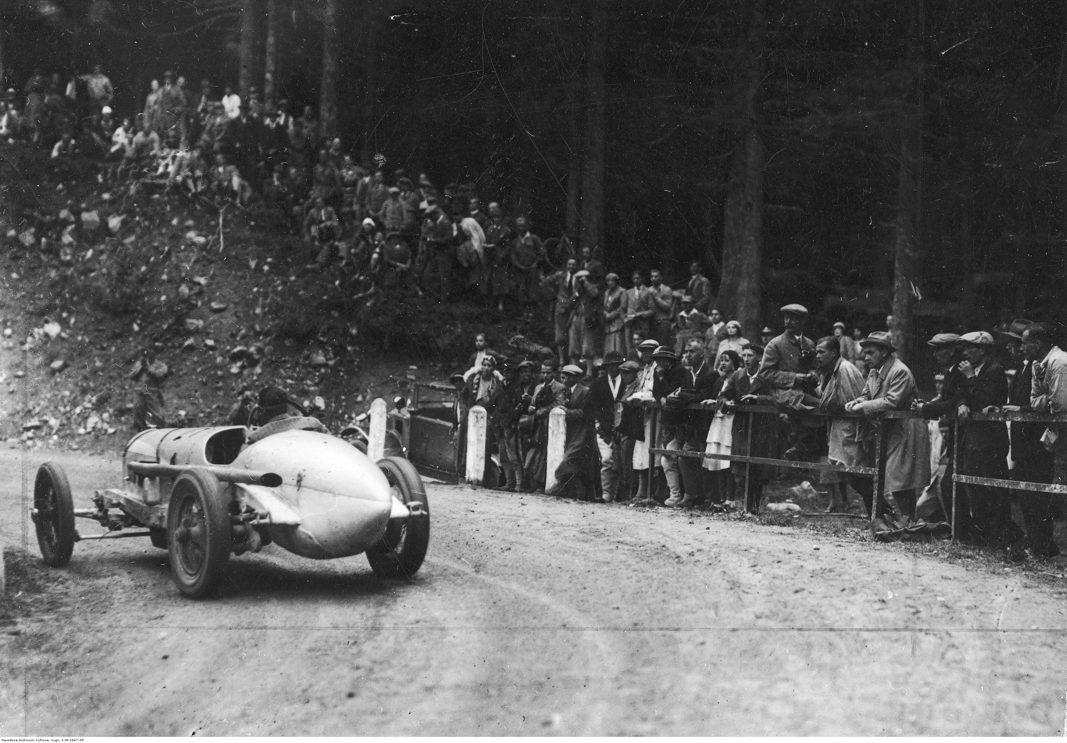 4th International Tatra Rally, Poland - Henryk Liefeldt in Austro-Daimler.